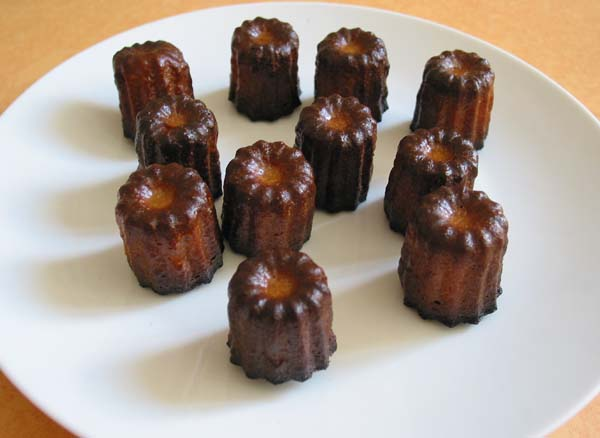 Canelés Nicolo